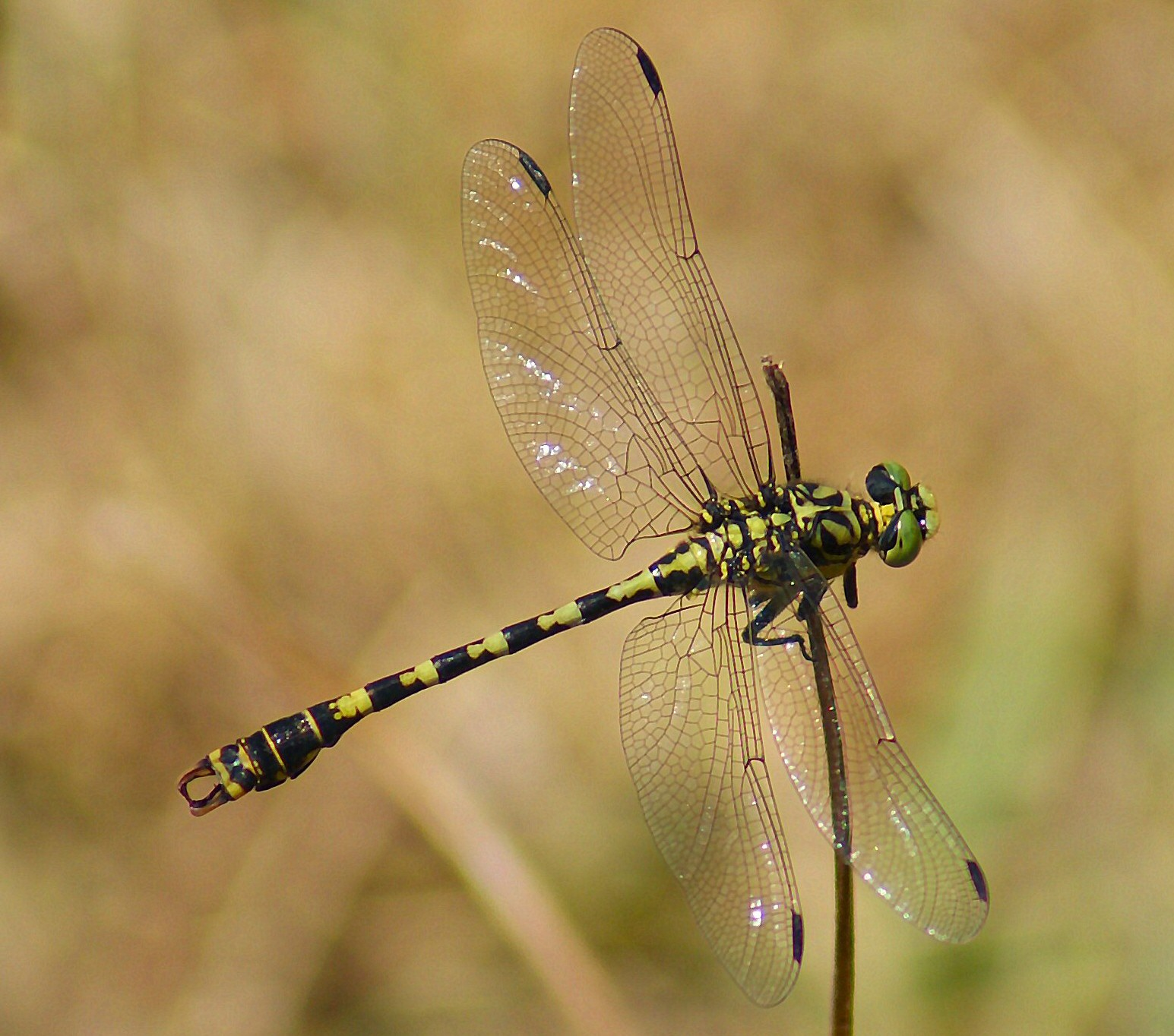 Male Small Pincertail Dragonfly Onychogomphus forcipatus on lookout on isolated stalk.